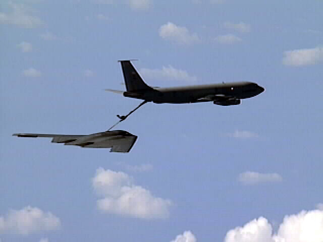 A U.S. Air Force B-2 aircraft hovers into place for aerial refueling with a US Air Force KC-135 Stratotanker over the Atlantic Ocean during an April mission in support of NATO Operation Allied Force. The aircraft belongs to Whiteman Air Force Base, Missouri, and is working with the Air Force Reserves and the Air National Guard, supporting missions between McGuire Air Force Base, New Jersey, and the Balkans.